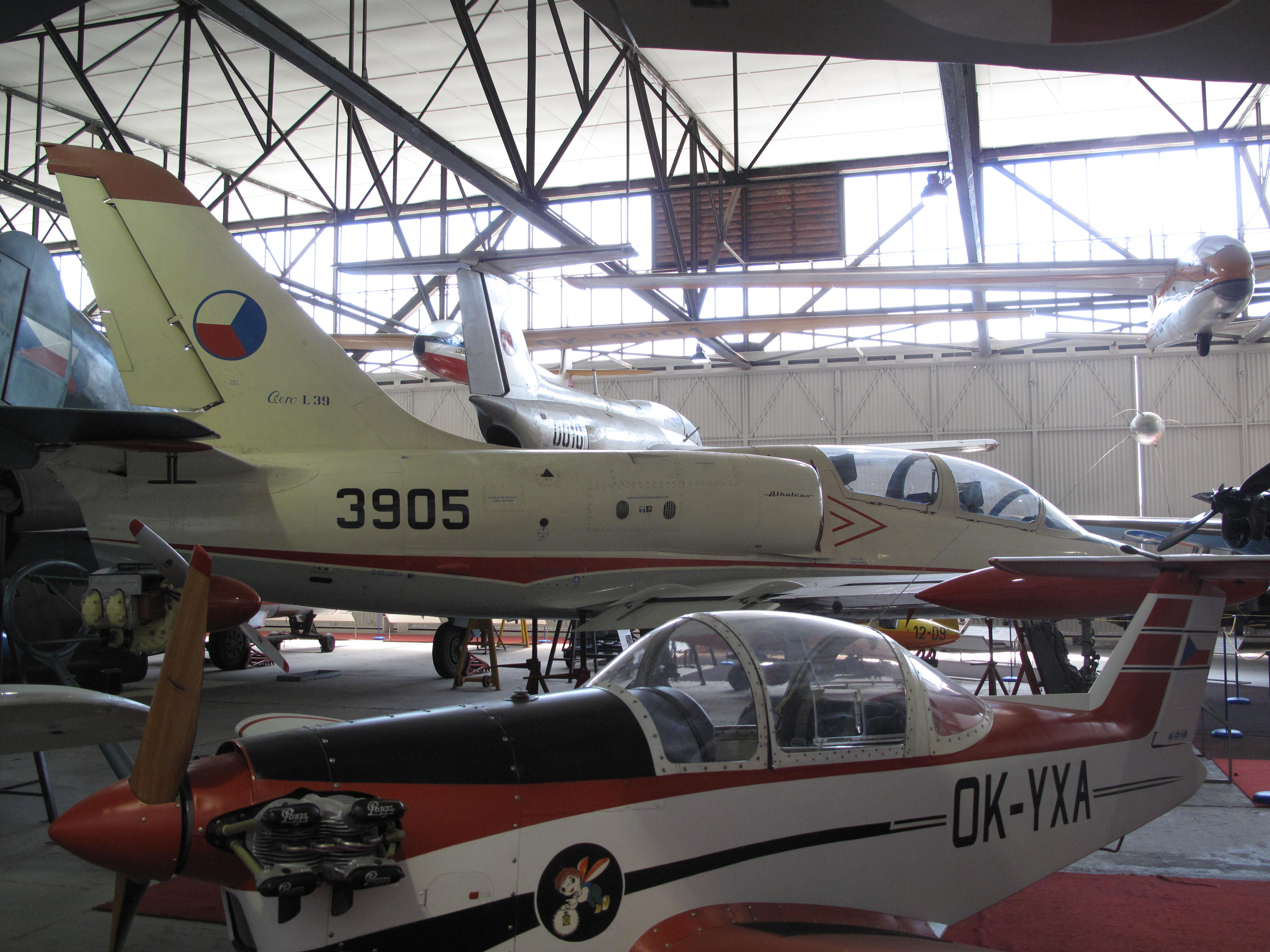 A Verner W-01 Broucek ("Beetle"), an homebuilt aircraft designed by Vladislav Verner, staff-member of the VZLU.